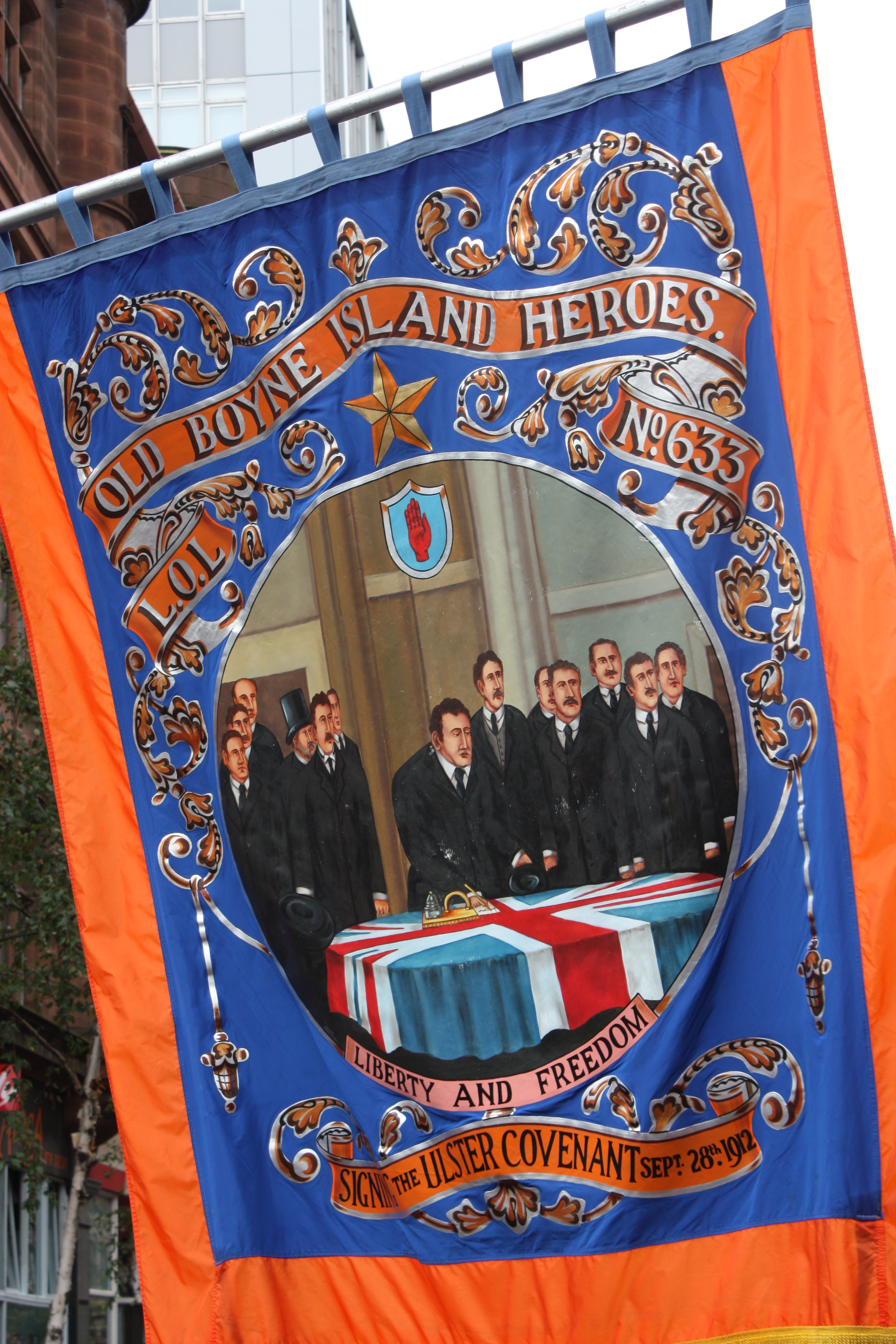 Banner, 12 July Orange Parades, Bedford Street, Belfast, Northern Ireland, July 2011 (Old Boyne Island Heroes Loyal Orange Lodge 633)